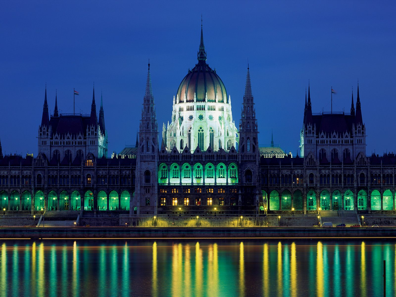 Parliament Palace, Budapest, Hungary